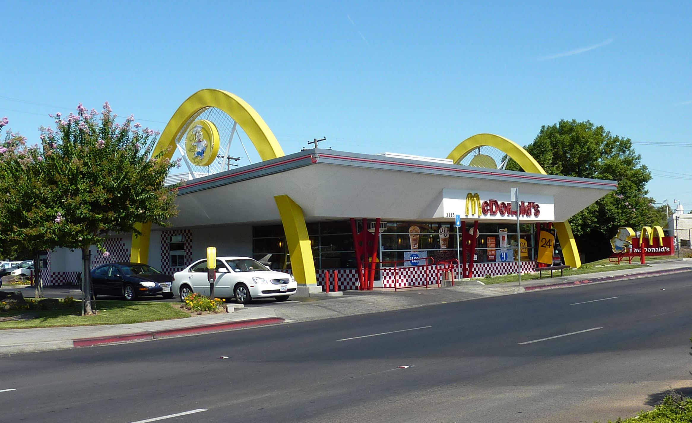 Historic McDonald's location — a site and replica style building, in Fresno, central California. In July 1955, Ray Kroc, who had begun taking over the chain from the original McDonald's brothers, opened his own first sub-franchisee at this location in Fresno. The original structure at Blackstone and Shields Avenues was demolished for a contemporary style structure in the 1970s. That was later demolished, for this new building replicating a style similar to original one here. This Fresno site is named the "first McDonald's restaurant franchised by Ray Kroc" — on a plaque placed on the site.